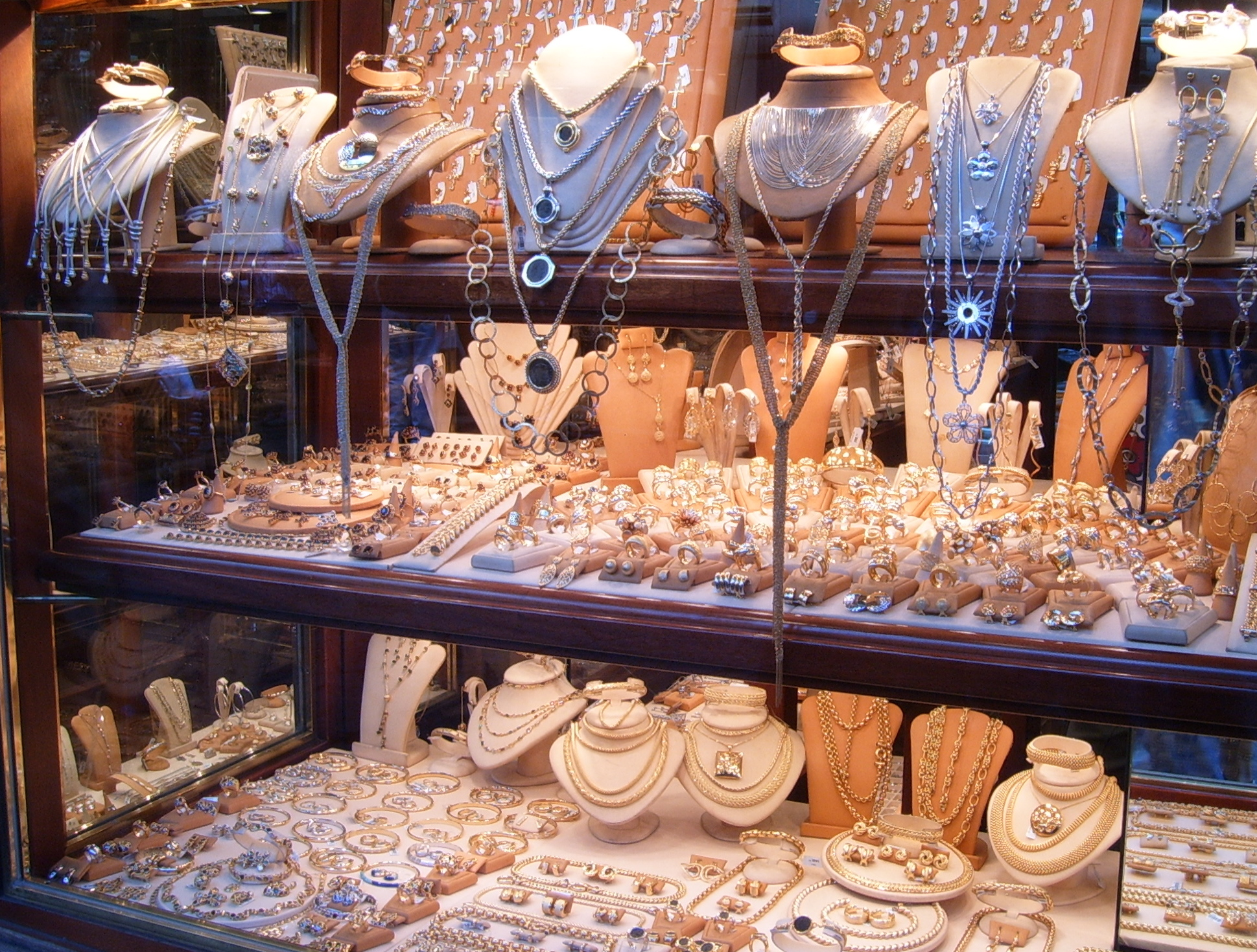 Jewellery on Ponte Vecchio, Florence (Italy)